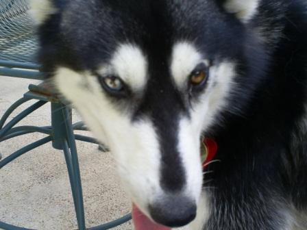 Kira my husky with one parti-colored eye